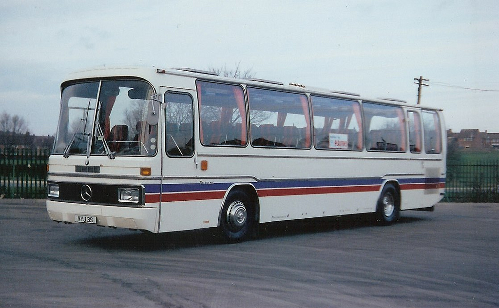 VYJ 3S, finished and awaiting pick up by WAHL @ plaxtons.